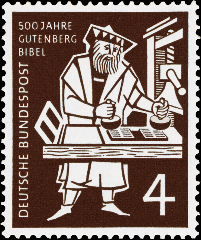 500 jears of the Gutenberg-Bible Graphics by Walter Brudi Ausgabepreis: 4 Pfennig First Day of Issue / Erstausgabetag: 5. Mai 1954 Michel-Katalog-Nr: 198